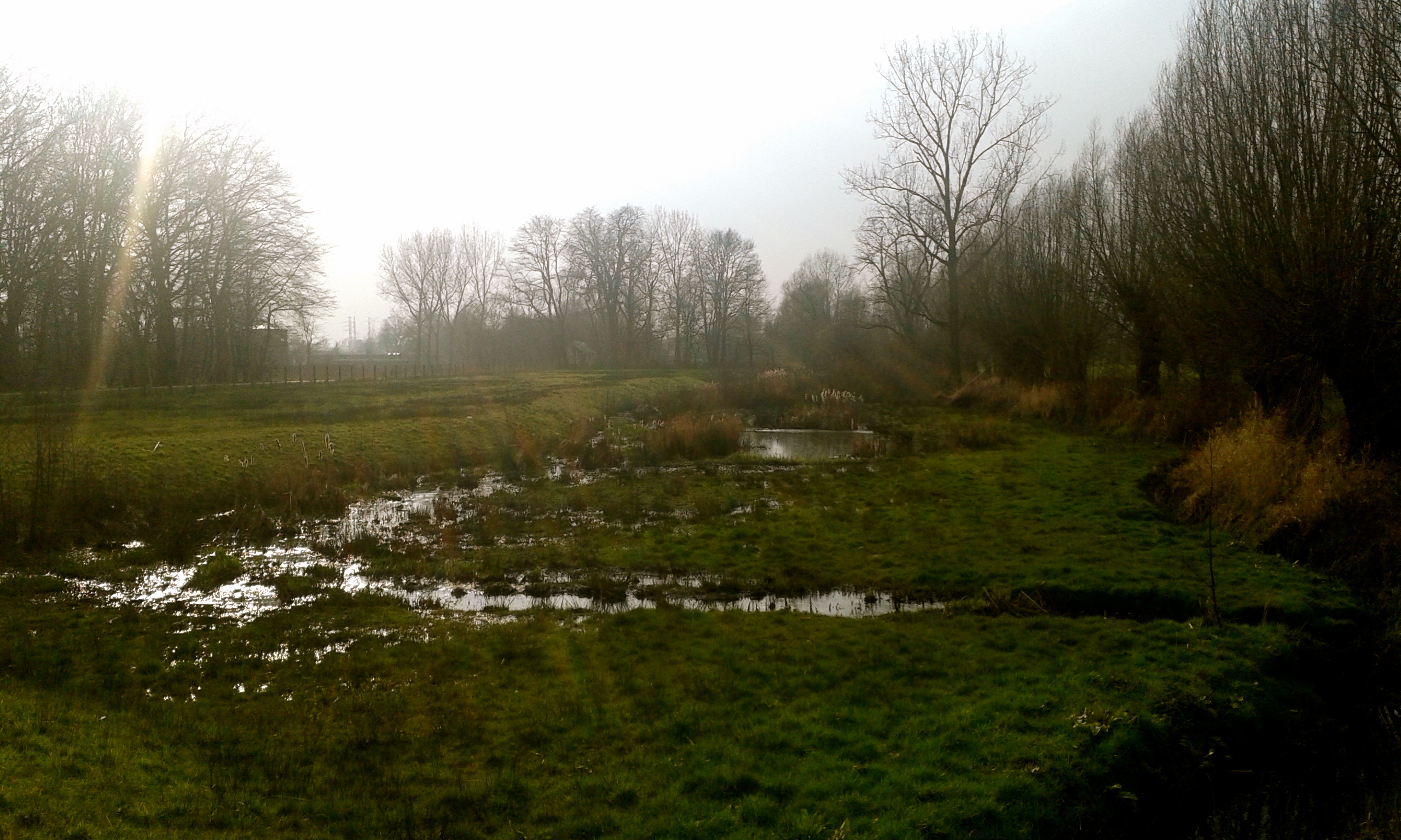 Babelse Plassen in het Lang Bos (Kapellekesbos)